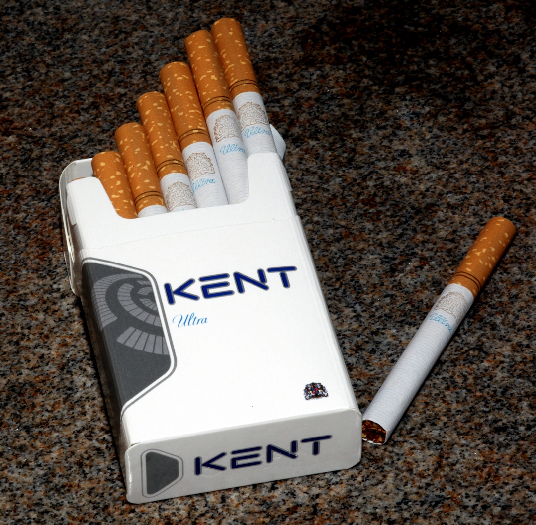 Kent Ultra Cigarettes as sold in South Africa